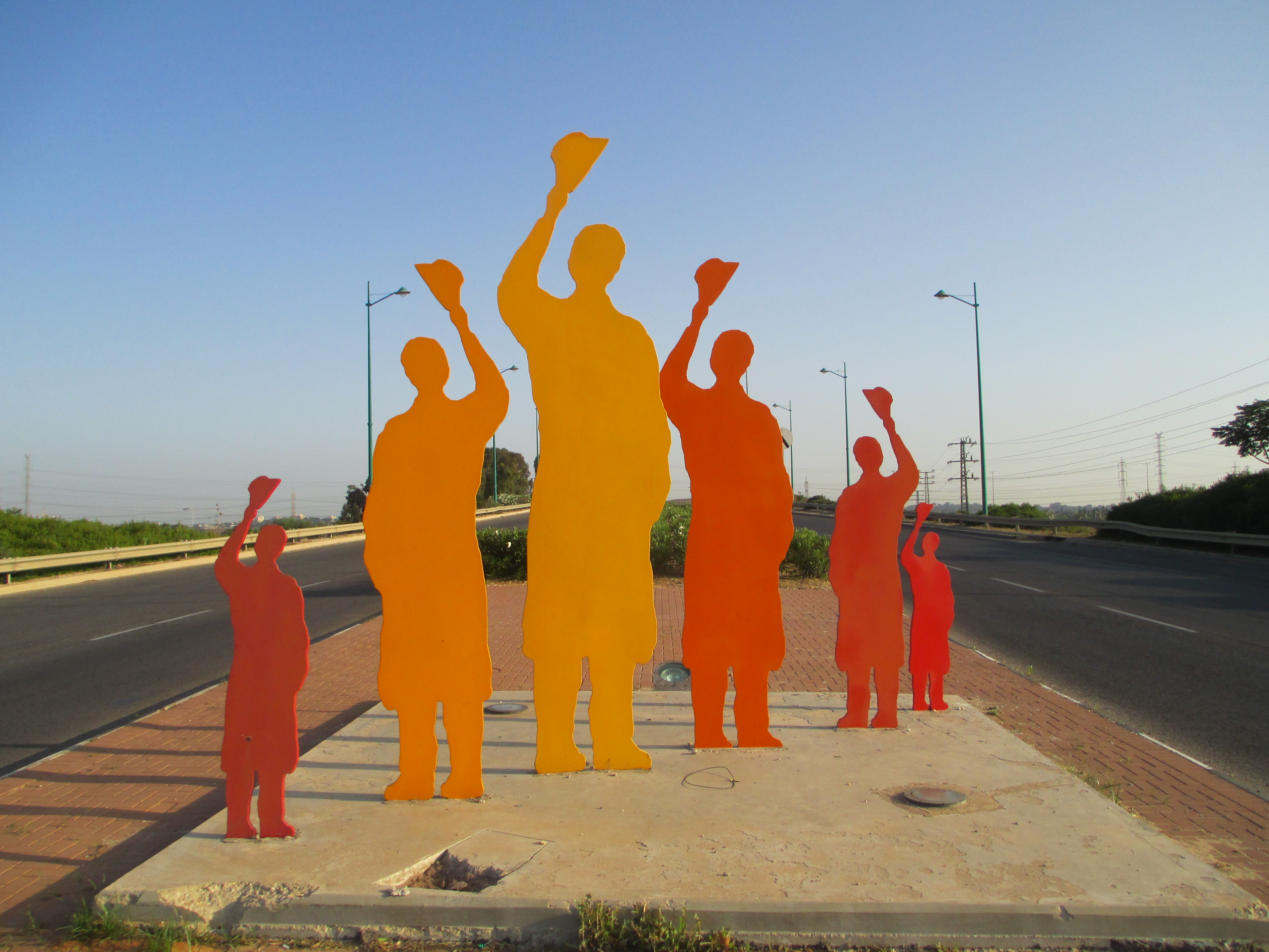 Farewell sculpture by Uri Dushy in Petah Tikva